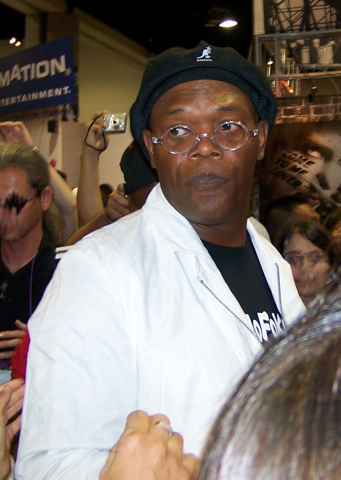 Actor Samuel L. Jackson at the 2008 Comic-Con convention in San Diego, California.